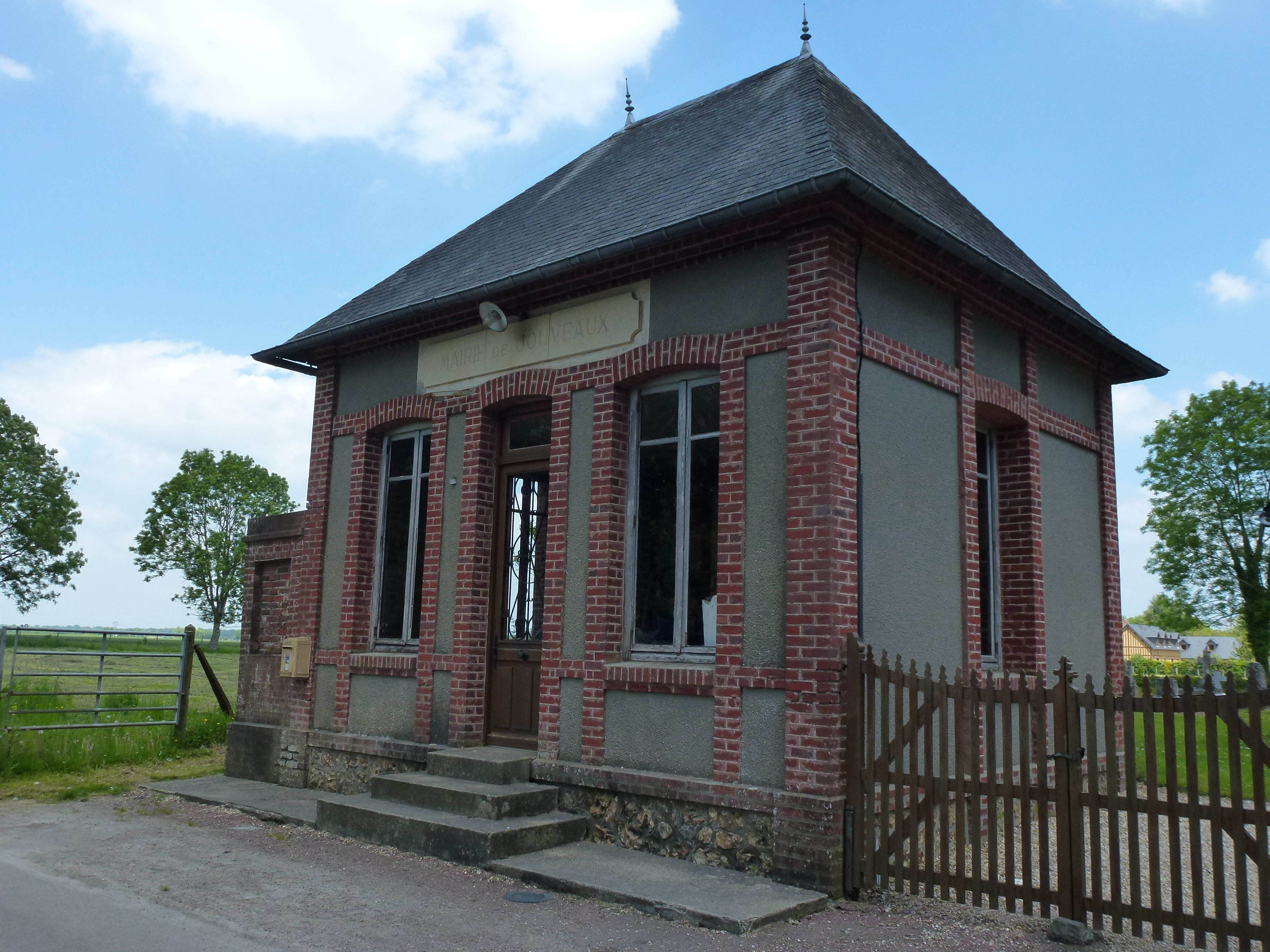 Morainville-Jouveaux (Eure, France), former town hall of Jouveaux